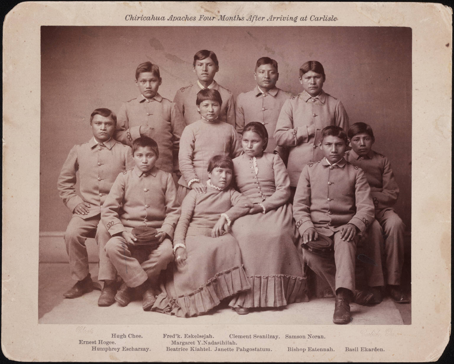 "Chiricahua Apaches Four Months After Arriving at Carlisle," black-and-white photographic portrait of a group of Apaches at the Carlisle boarding school. Image courtesy of the Richard Henry Pratt Papers, Beinecke Rare Book & Manuscript Library.[1]